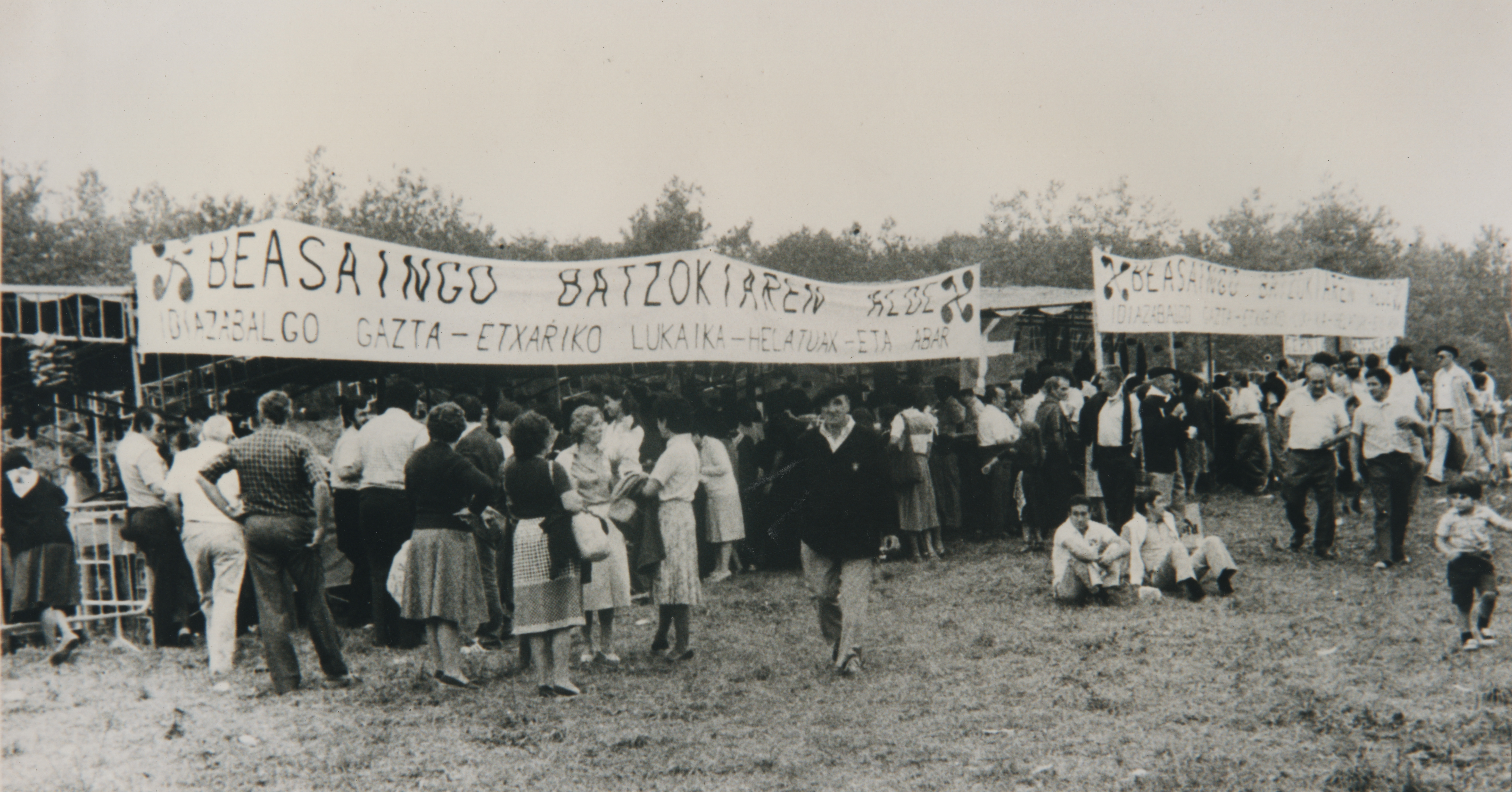 Party Day, Aixerrota 1979 . A collection of historical photographs of the EAJ-PNV in Beasain.